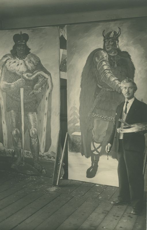 Petras Kalpokas with his painting of Lithuanian dukes at the Kaunas Garrison Officers' Club Building